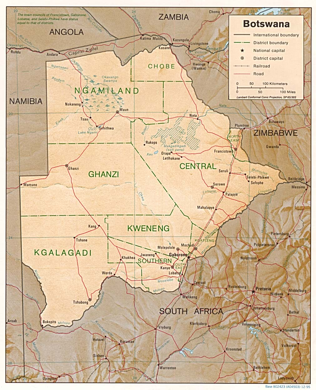 Shaded relief map of Botswana.